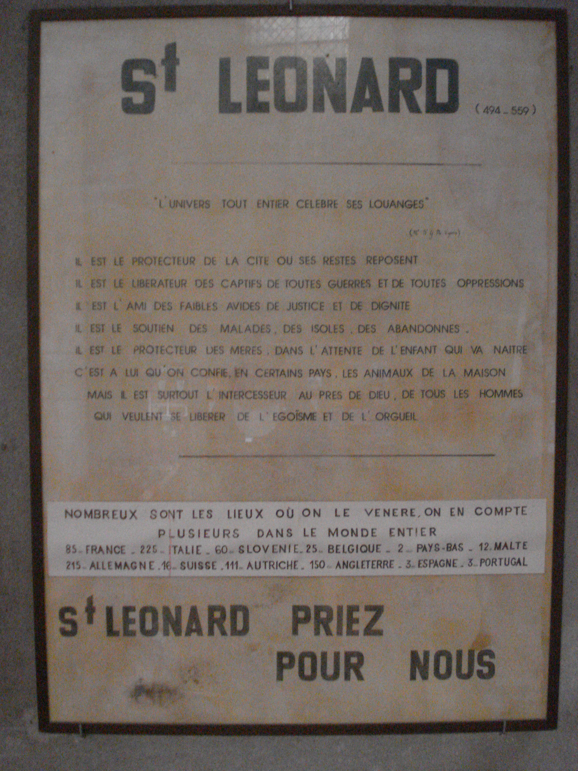 Saint Leonard-de-Noblat (Haute-Vienne, Fr), information about St.Leonardus outside the church